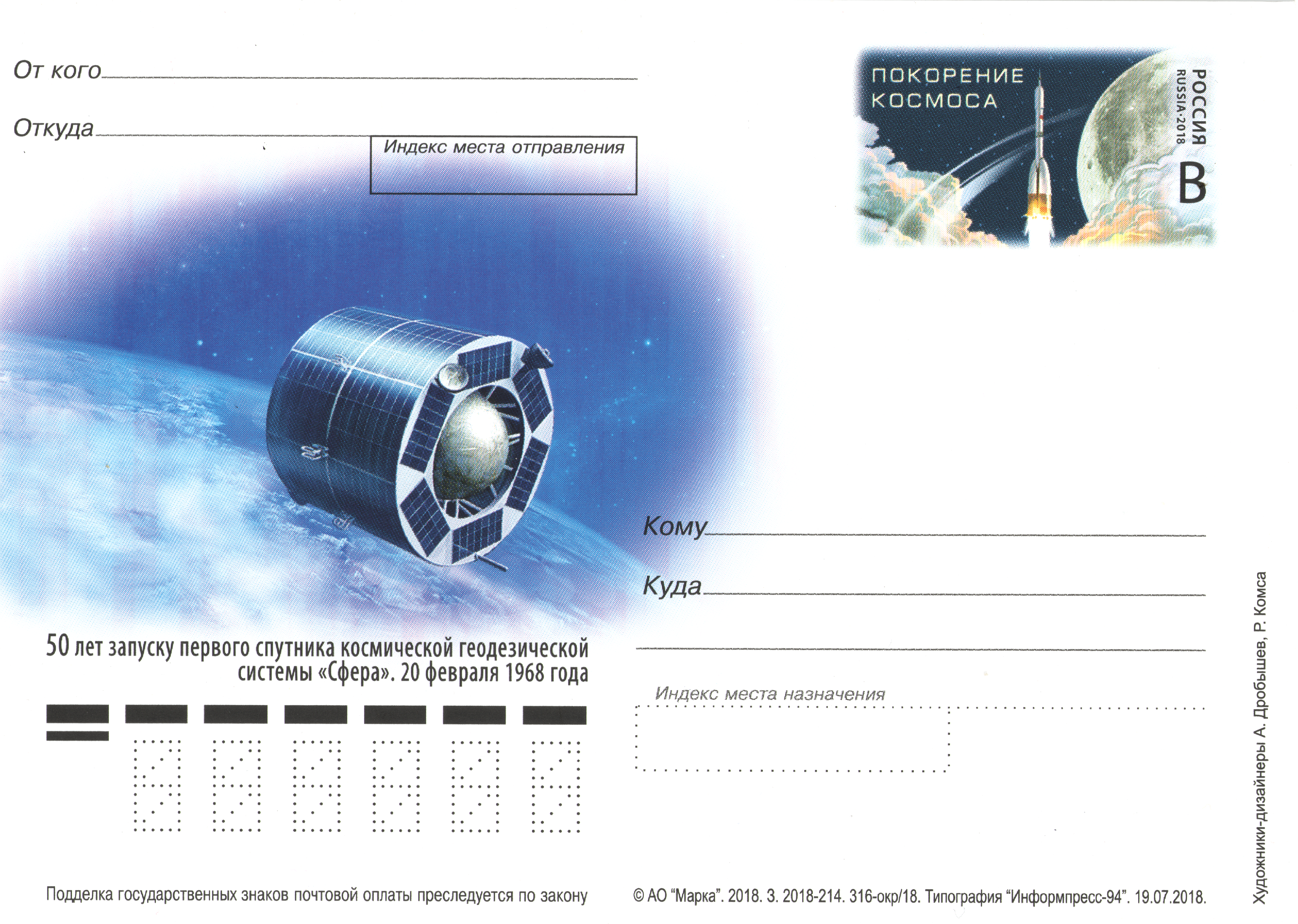 Russian postal card of 50th anniversary of Sfera.